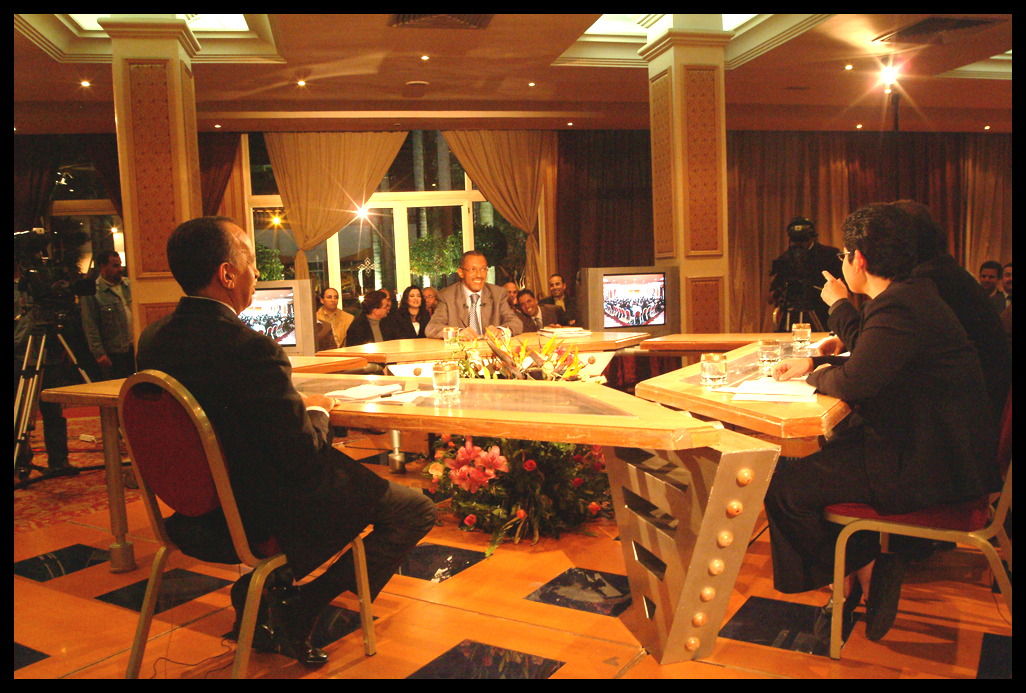 Mohamed Sassi in Hiwar Talk Show with M. Alaoui, H. Filali-Ansari, M. Khalfi and A. Boukous